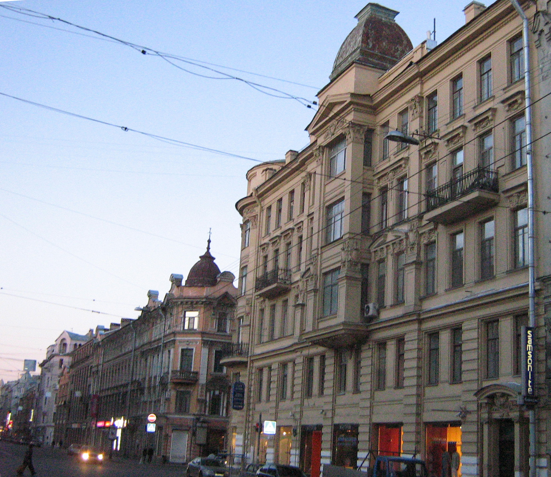 Bolshoy avenue (Petrograd side), 49, corner of Lenina street (Saint-Petersburg, Russia)